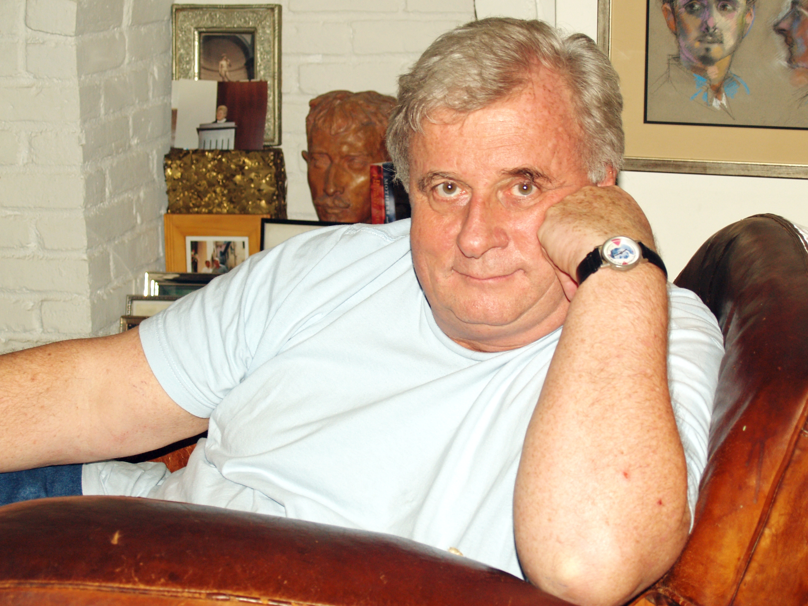 Edmund White by David Shankbone